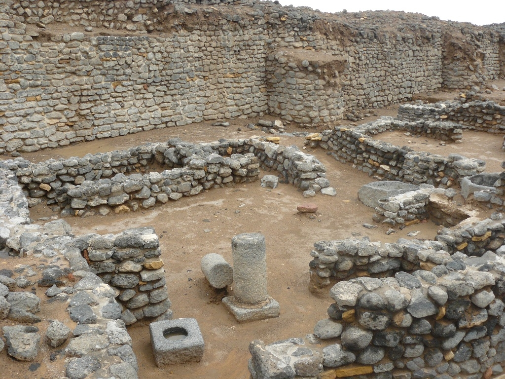 اثار ومواقع أثرية في فيد